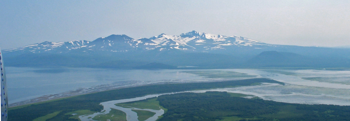 Kamchatka. Nachikinskiy volcano view from Uka. View from helicopter.